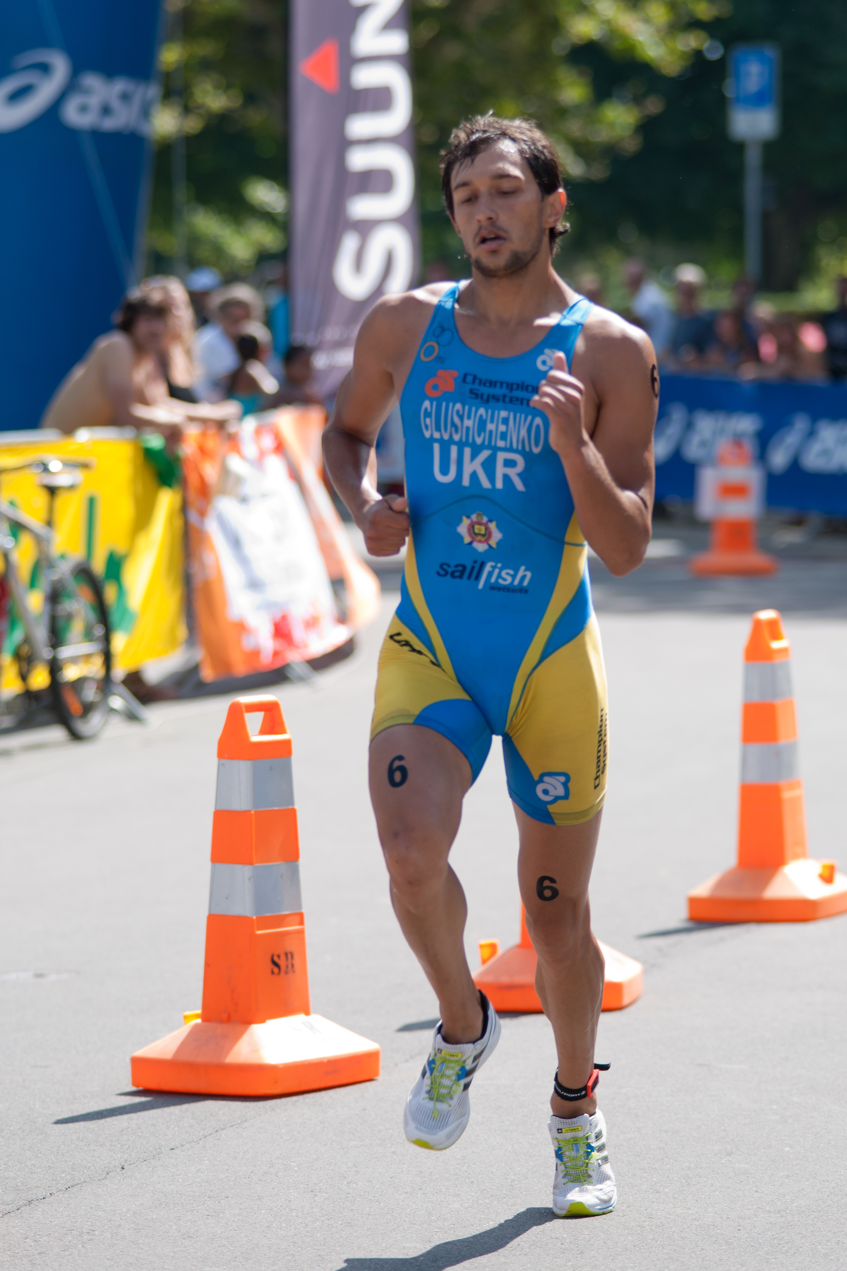 2010 ITU Sprint Distance Triathlon World Championships, Lausanne, Switzerland.